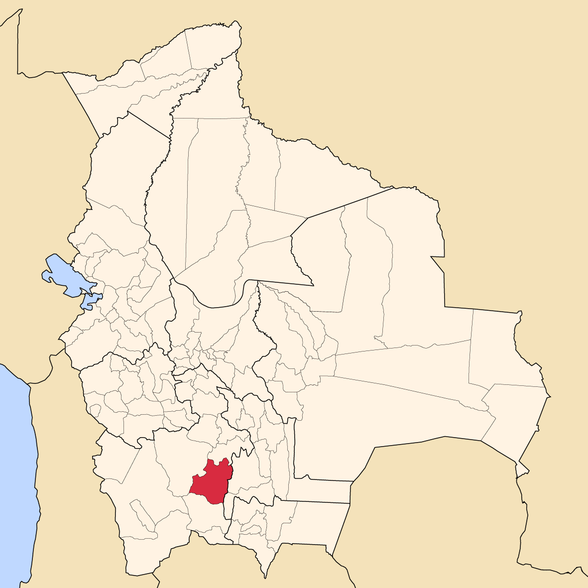 Map of Bolivia showing Nor Chichas province, Potosí